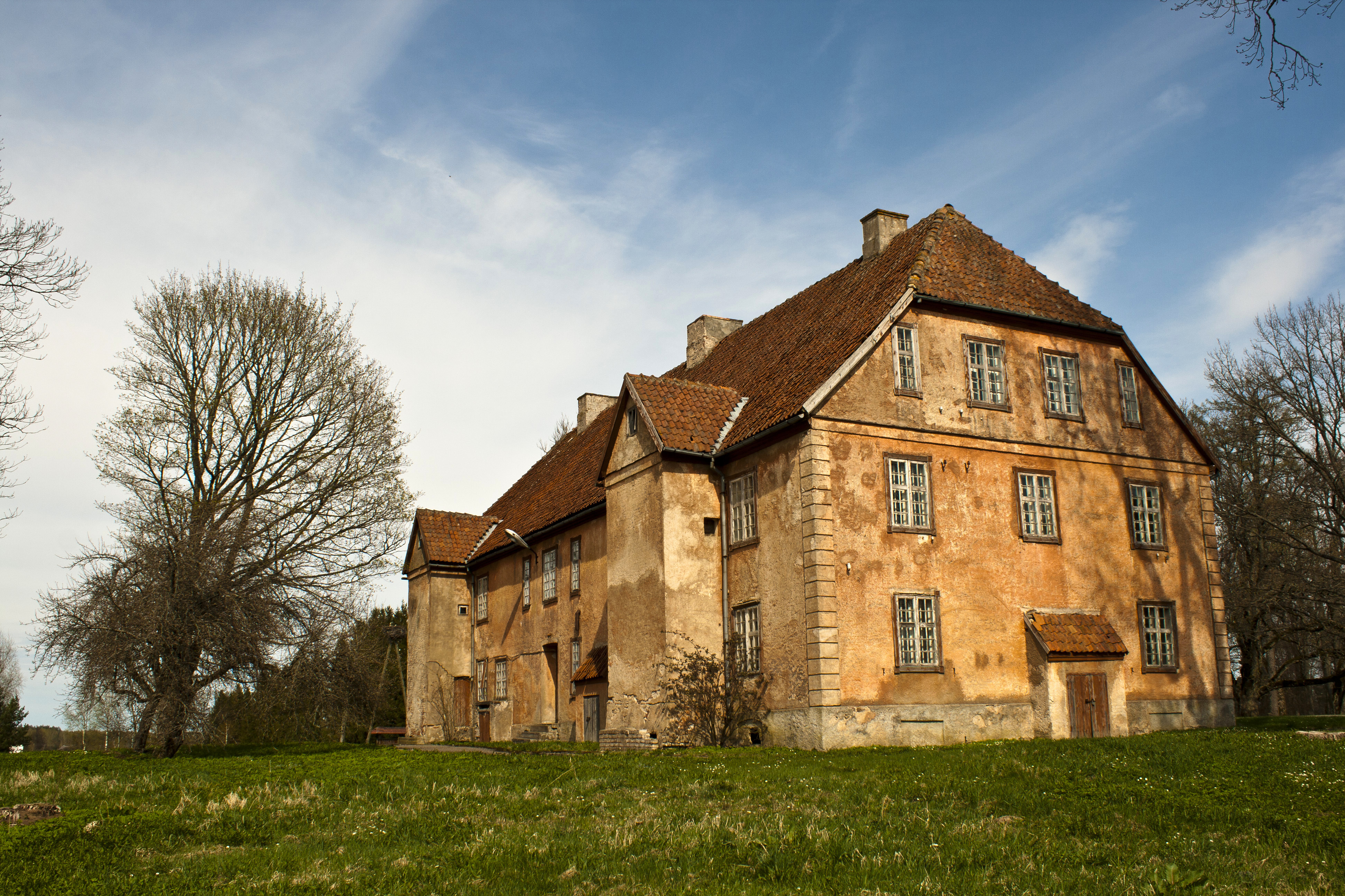 Īvande Old ManorLatviešu: Īvandes muižas vecā pils